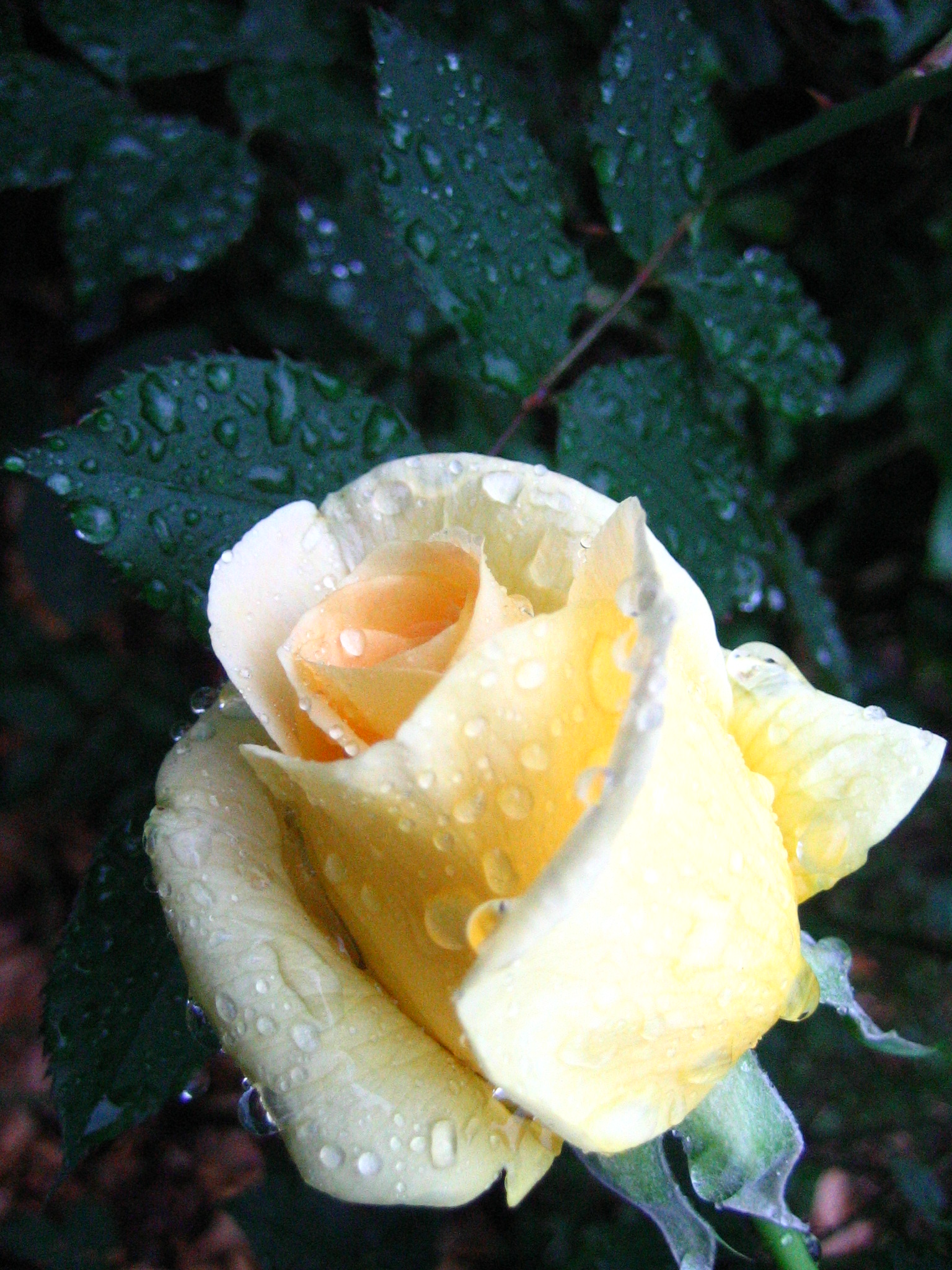 Uncoiling